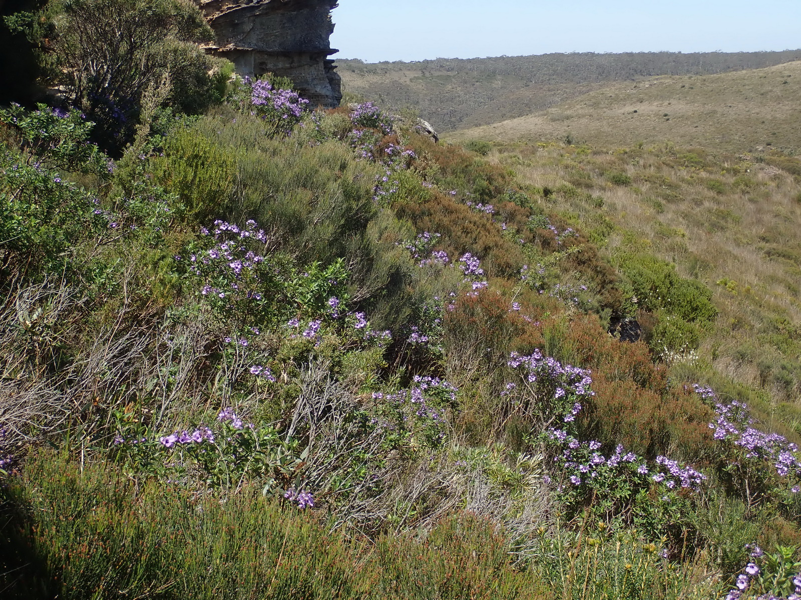 Prostanthera caerulea, Lockleys Pylon, Blue Mountains National Park